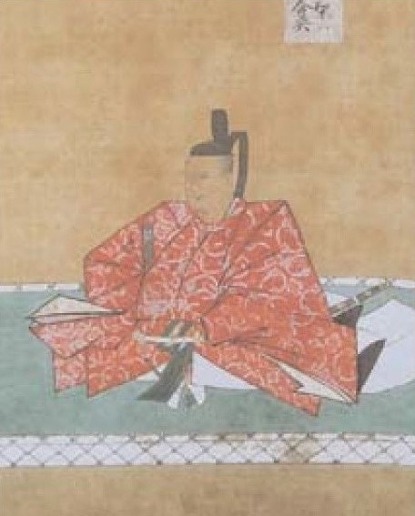 相良頼喬の肖像。